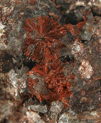 Xocolatlite Locality: Moctezuma Mine (Bambolla Mine), Moctezuma, Municipio de Moctezuma, Sonora, Mexico (Locality at ) Size: 4.5 x 3 x 3 cm. One of the surprises of 2007 for rarities was the reworking of the famous old Bambolla mine in the Moctezuma tellurium complex for specimens, by several European-led collecting teams. This is the only example of this relatively new tellurate species I have yet seen available, and I am told it is a very good one as well, from the limited supply available. It was part of a study group of specimens given to a major museum, and then traded to me at the Tucson 2009 show. The species was named for the Aztec word for chocolate, the color of its crystals. Type locality.